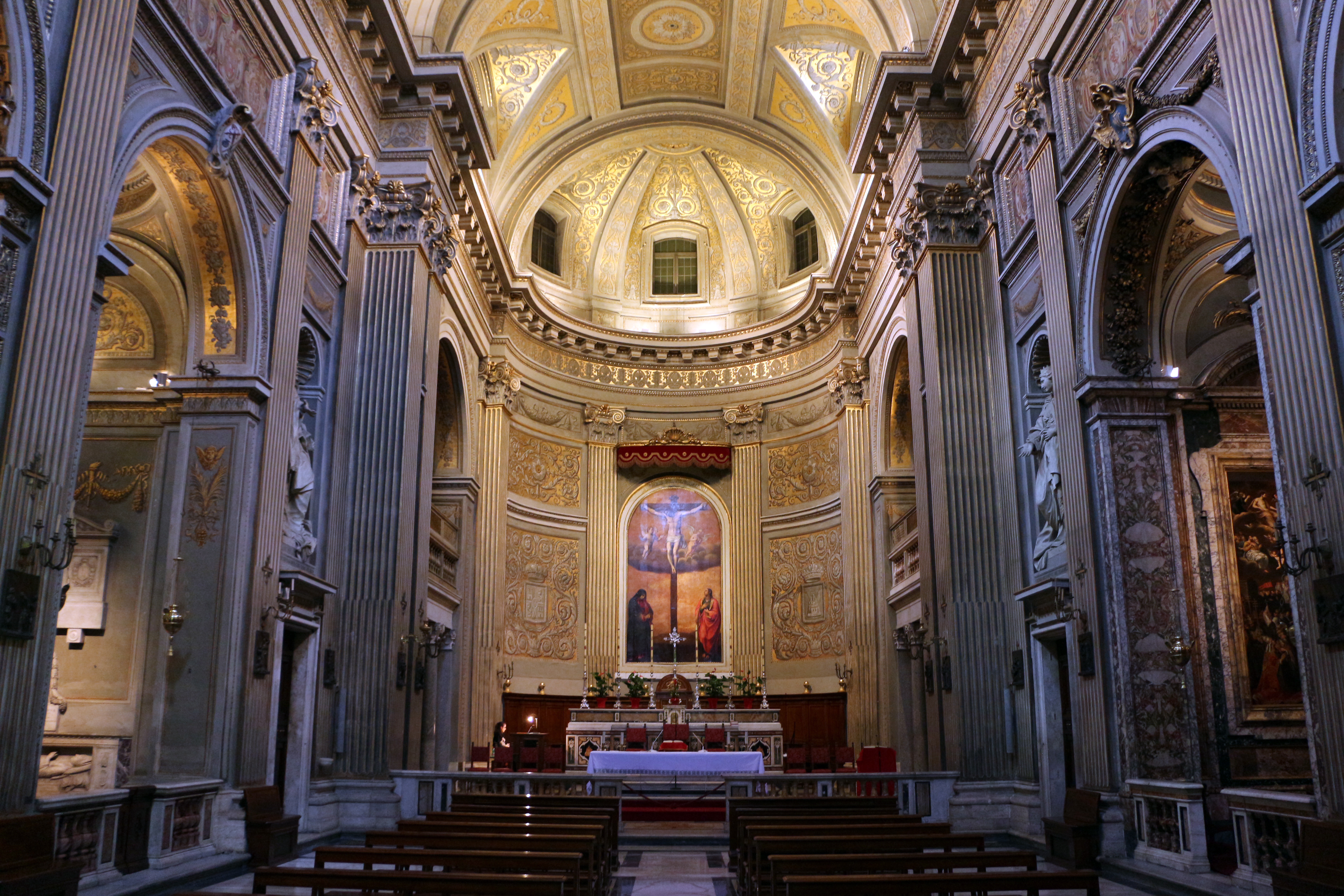 Santa Maria in Monserrato degli Spagnoli - Interior